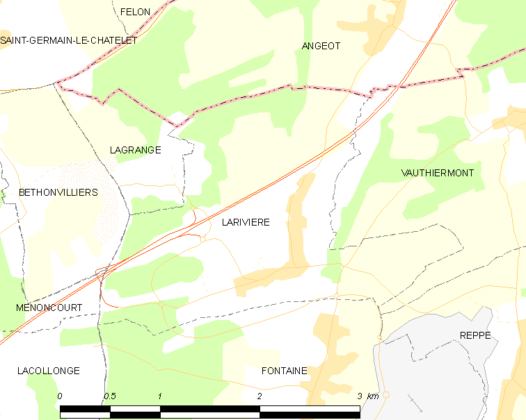 Map of French municipality Larivière